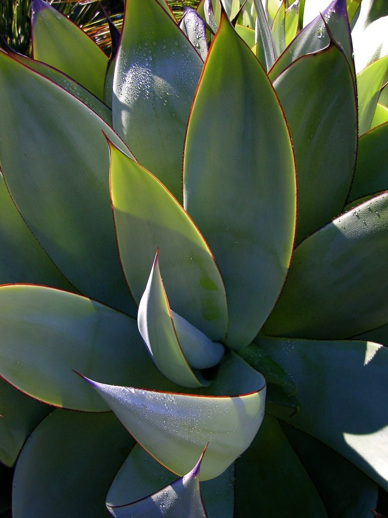 This is a photo of Agave celsii taken at the University of California, Berkeley Botanical Garden by myself. More comments about the picture can be found at Dusky Shutterflies